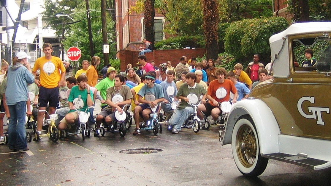 (John Bird, self-taken, 2006)